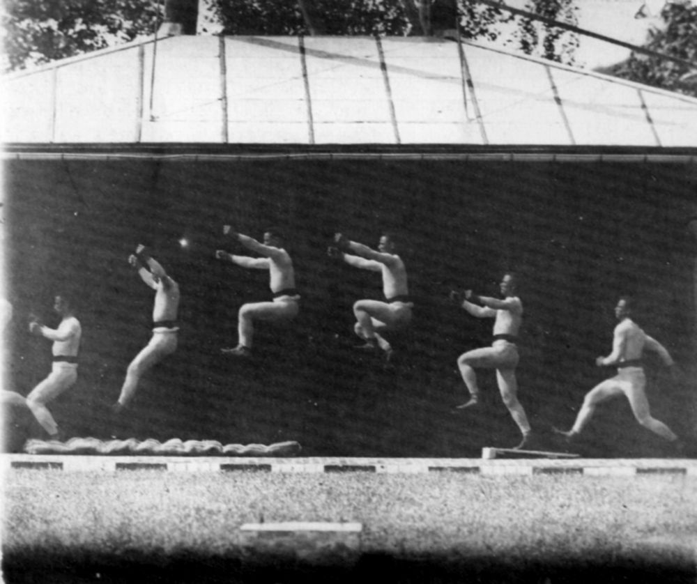 Long jump with running start